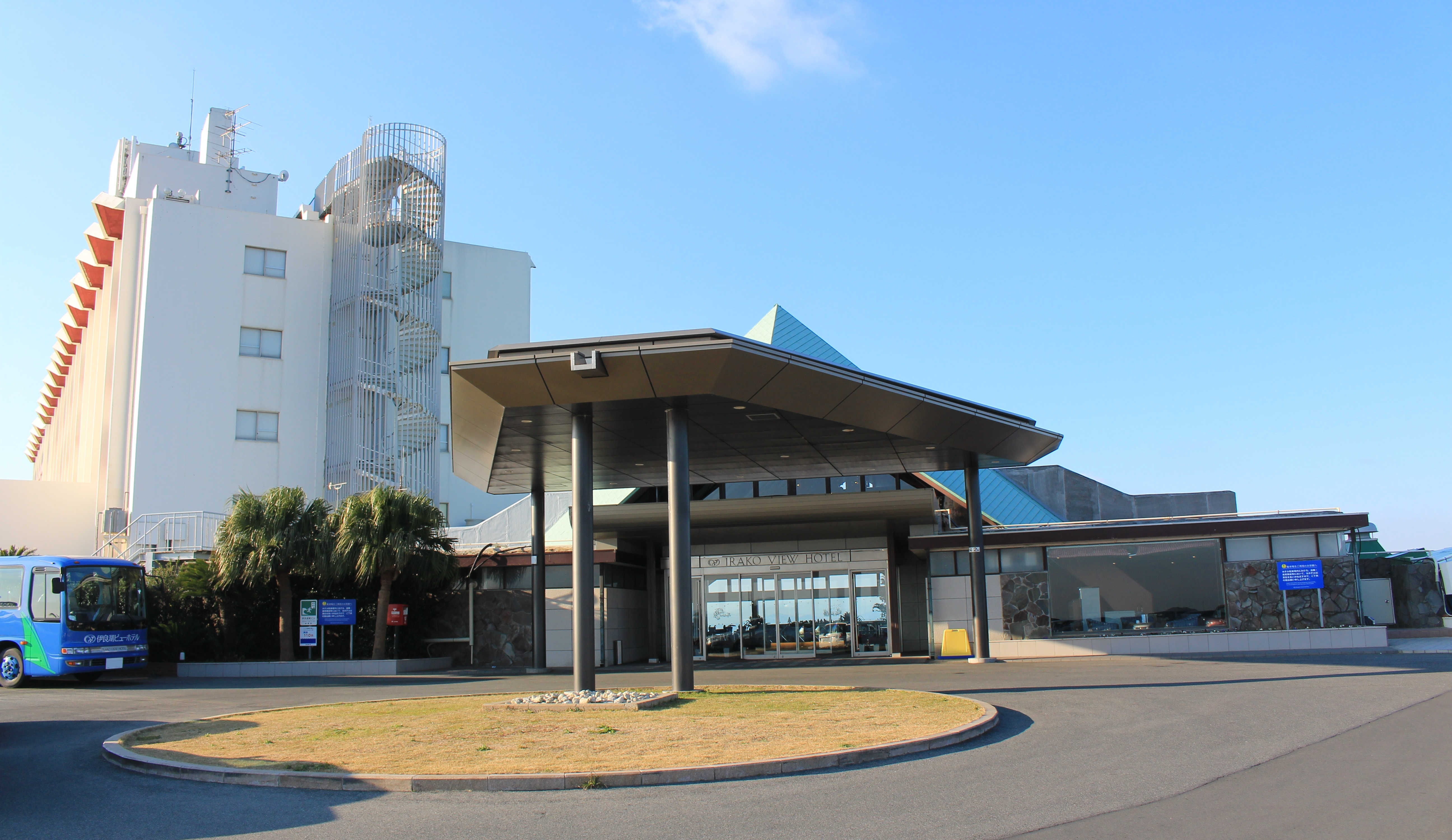 IRAKO VIEW HOTEL in Tahara, Aichi prefecture, Japan.